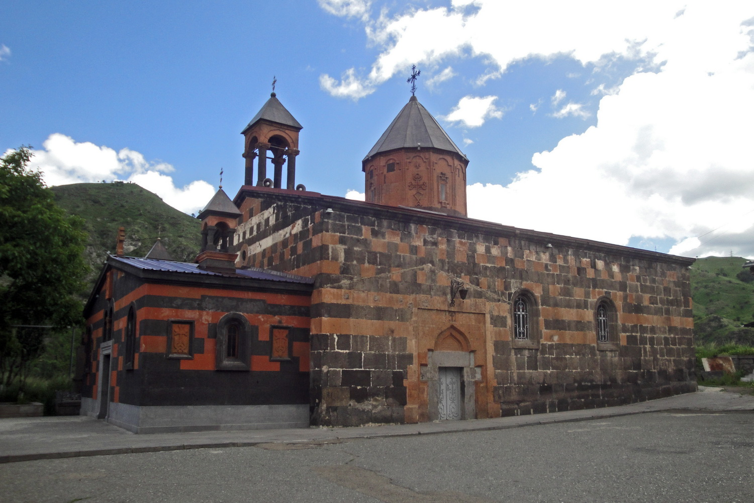 Vanadzor, S. Astvatsatsin, 2013.06.08